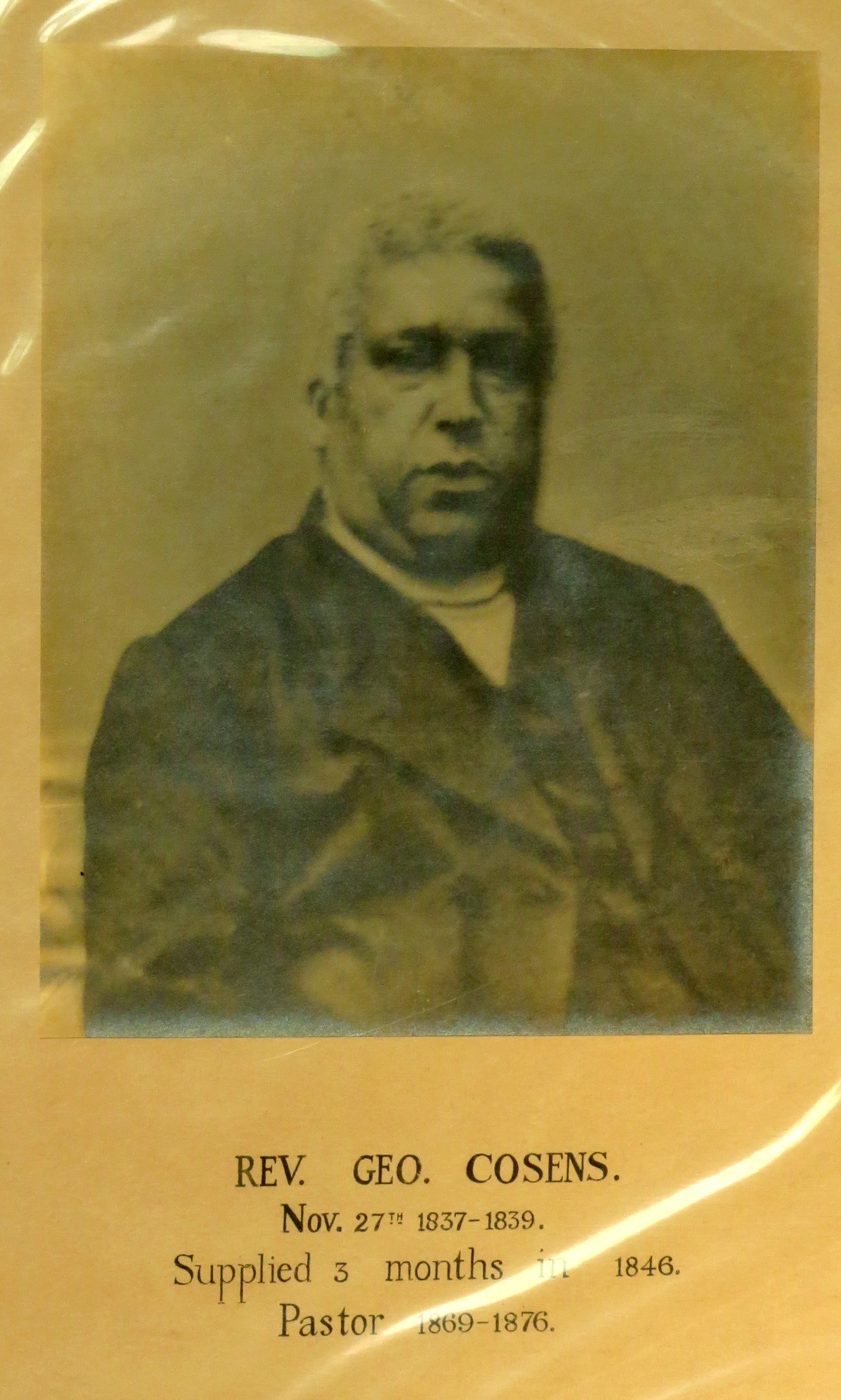 The only known portrait of Rev. George Cosens, a Jamaican who in 1837 became the first known black West-Indian minister of any Church in Britain on his first pastorate of Cradley Heath Baptist Church. This version copied from a print among the documents at Cradley Heath Baptist Church.